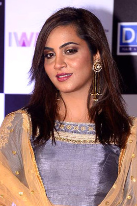 Arshi Khan graces ALT Balaji’s Digital Awards 2018 on March 11, 2018.